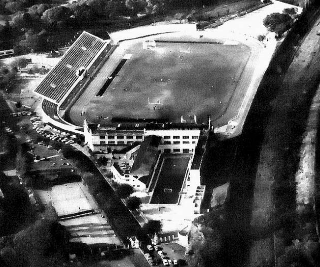 The Estadio GEBA, aerial view